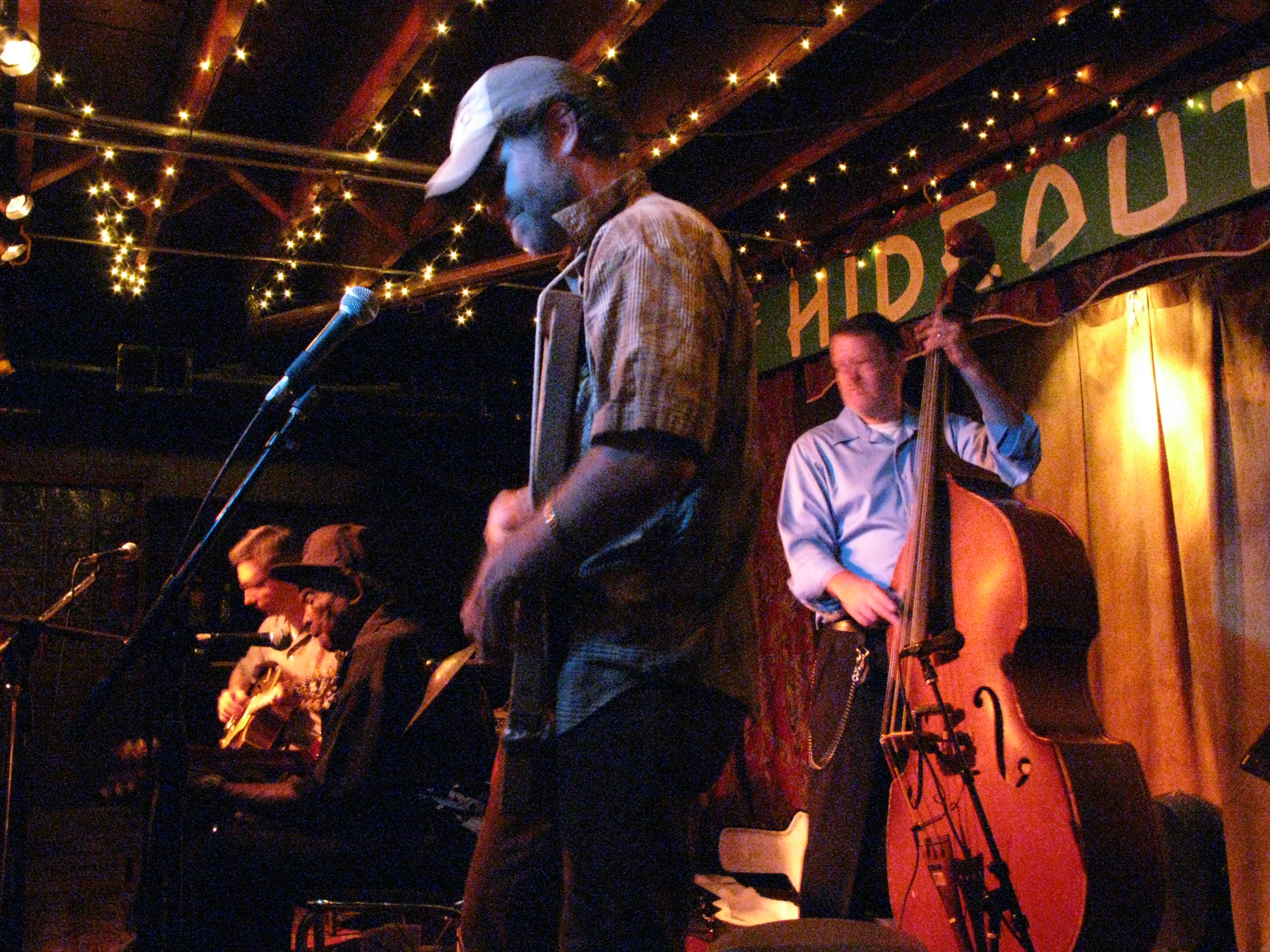 Devil in a Woodpile performing at the Hideout club in Chicago, with old time blues musician David Honeyboy Edwards.